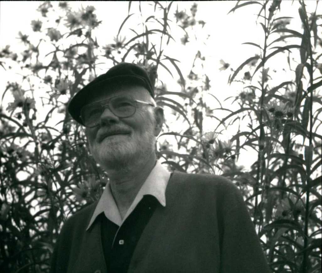 Photograph of Charles Bixler Heiser.